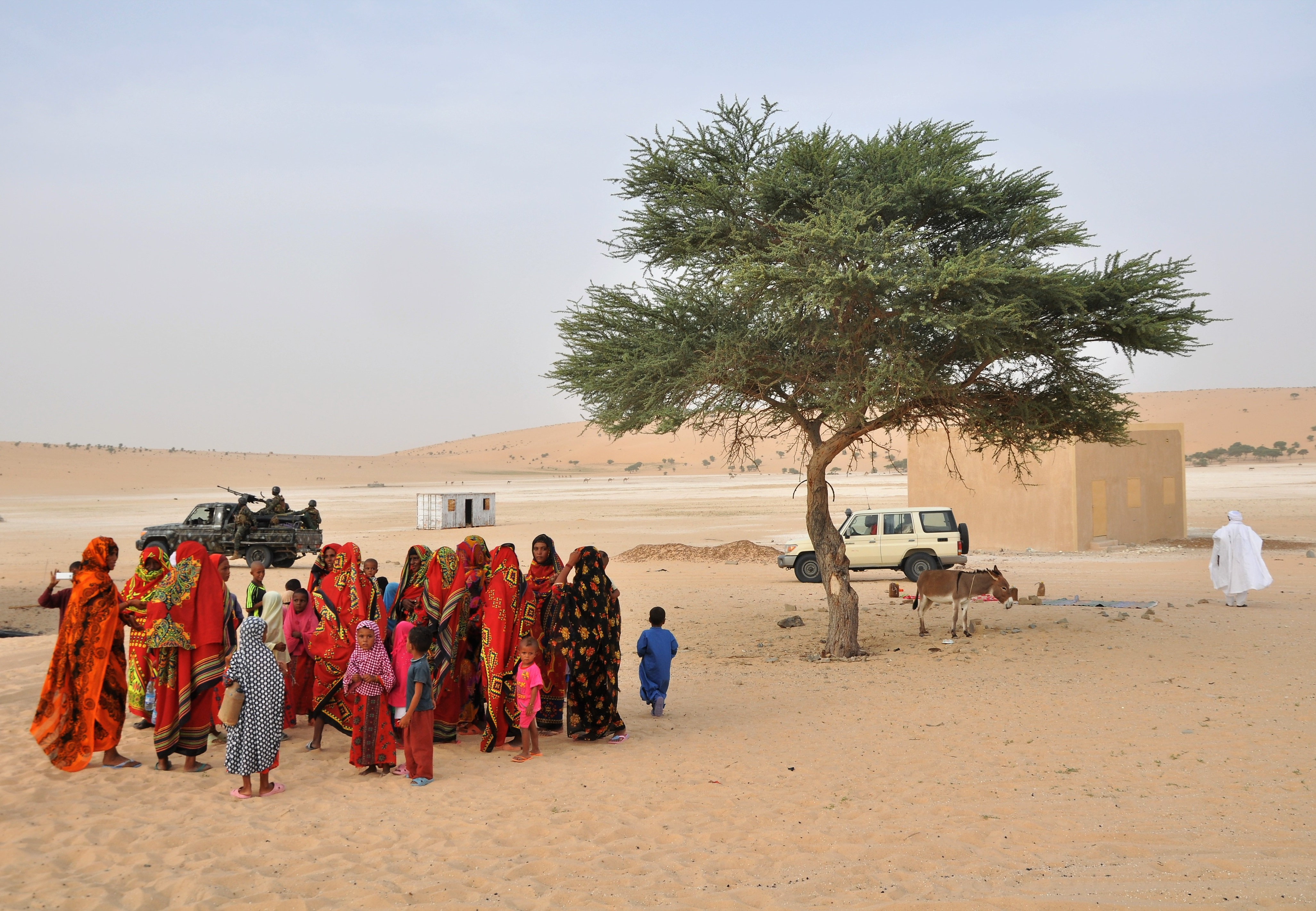 Women and children in Melek (Meleck), a village in a remote and very arid part of the rural commune of N'Gourti (N'Guigmi Department, Diffa region), in the extreme east of Niger.